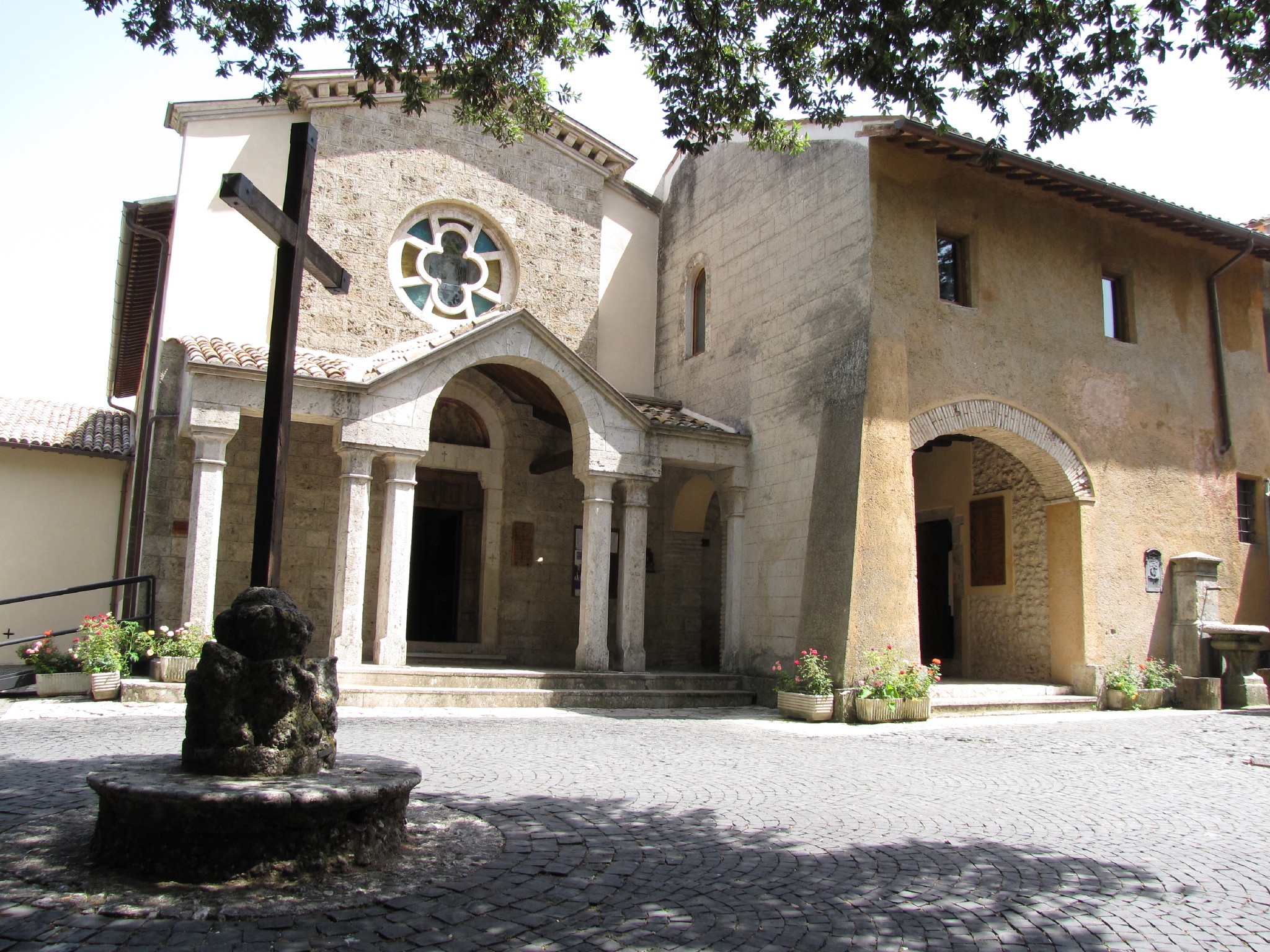 Franciscan sanctuary of Fonte Colombo in Rieti (Lazio, Italy)